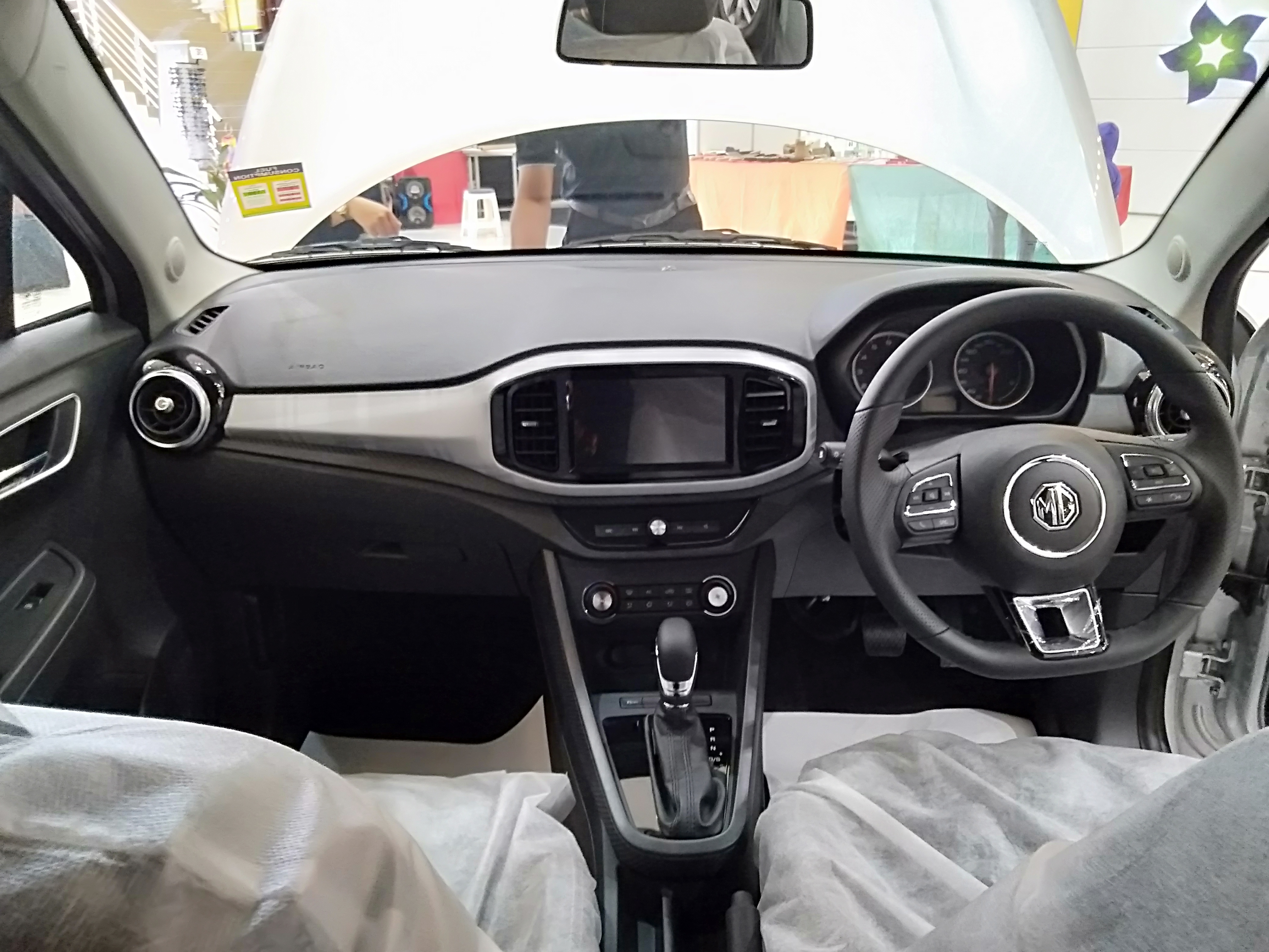 2020 MG3 1.5 DEL interior view. Photographed at Rimba Point Shopping Centre, Rimba, Brunei.